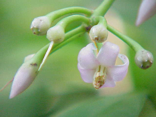 Species: Ardisia polycephala Family: Myrsinaceae Image No. 2